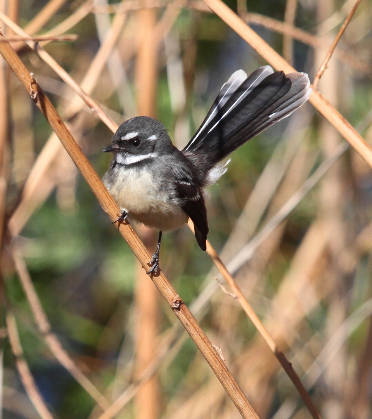 Grey Fantail (Rhipidura albiscapa), Alice Springs, Northern Territory, Australia